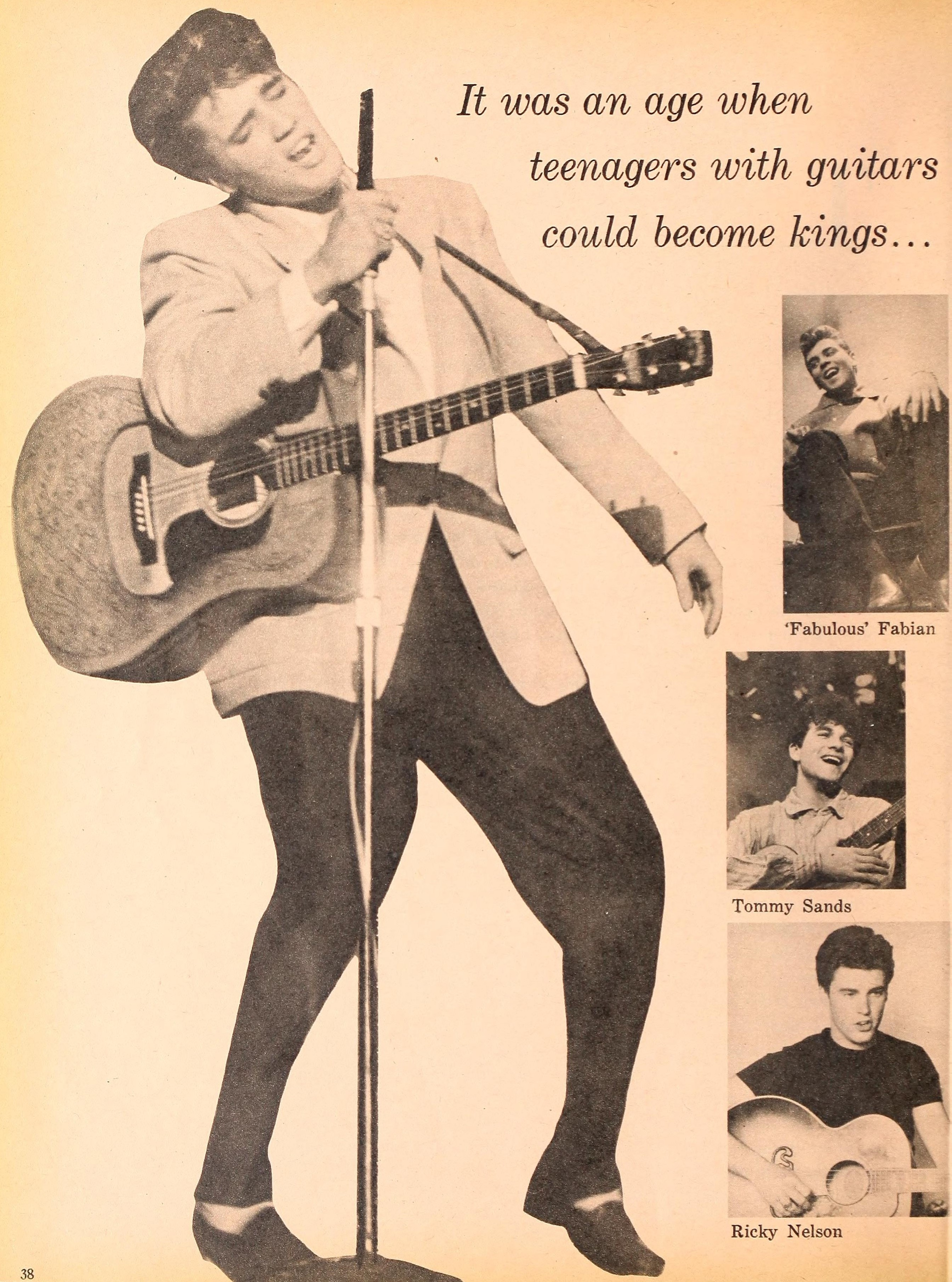 Page printed in retrospect of the 1950s